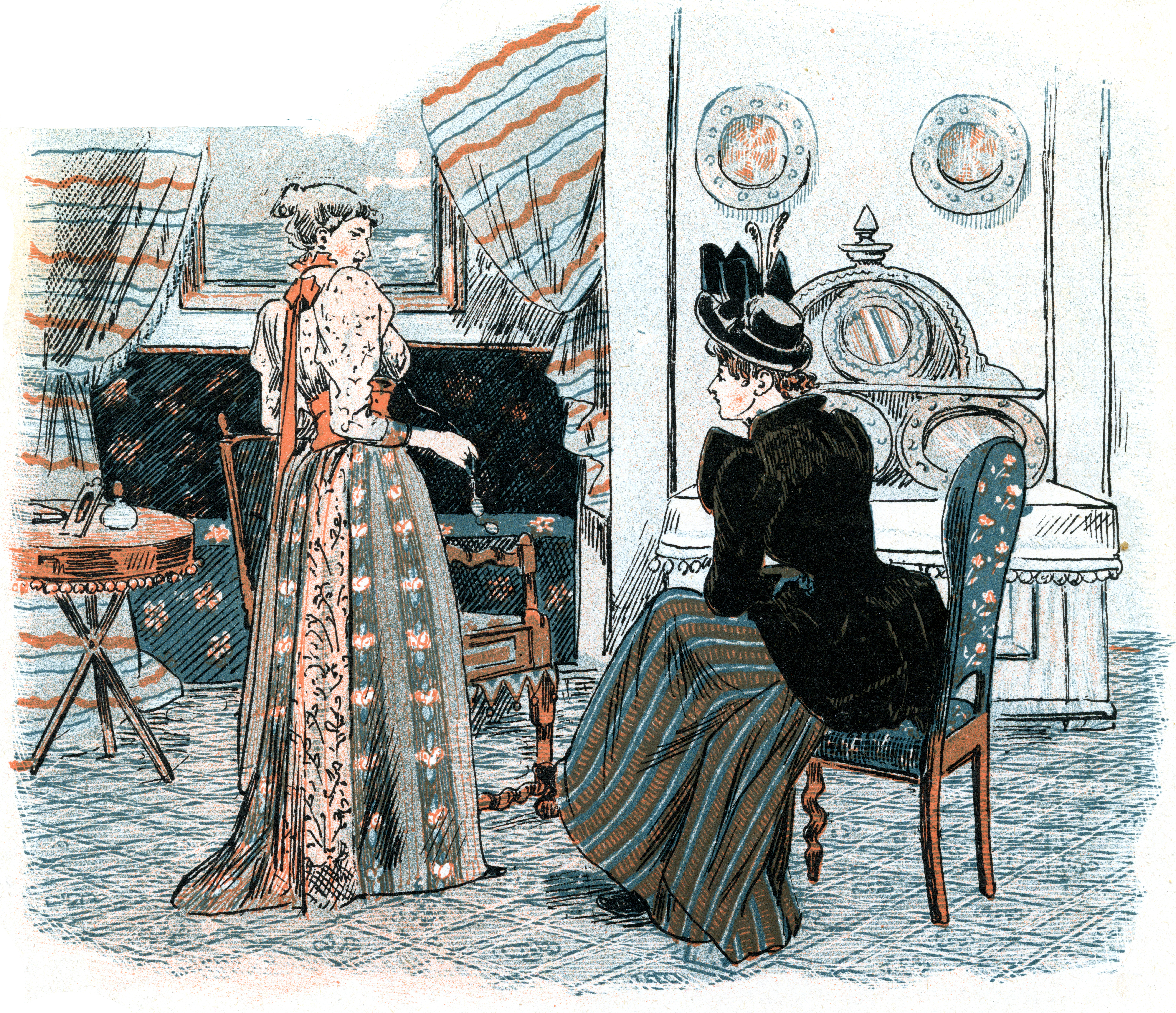 Two delicate ladies talking together in a delicate room.